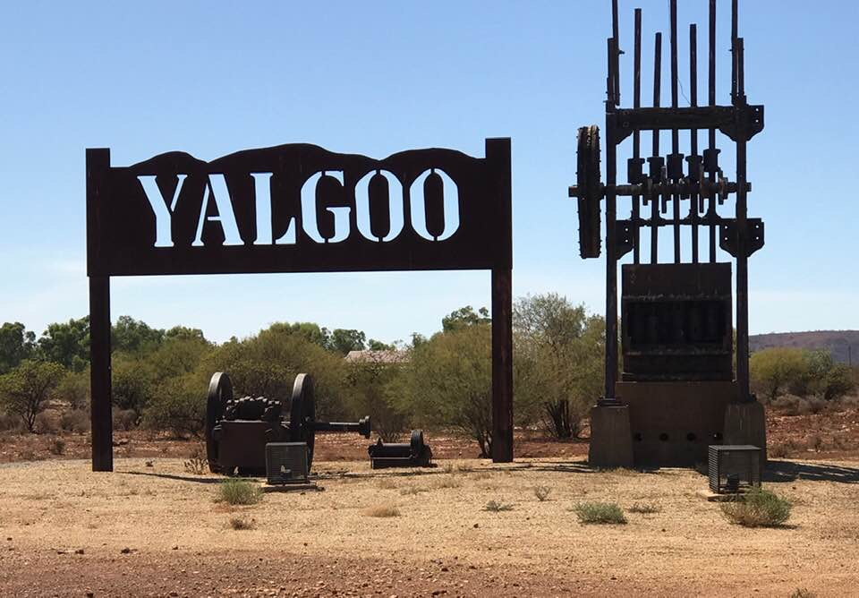 The metal sculpture/entry statement to the town of Yalgoo in Western Australia